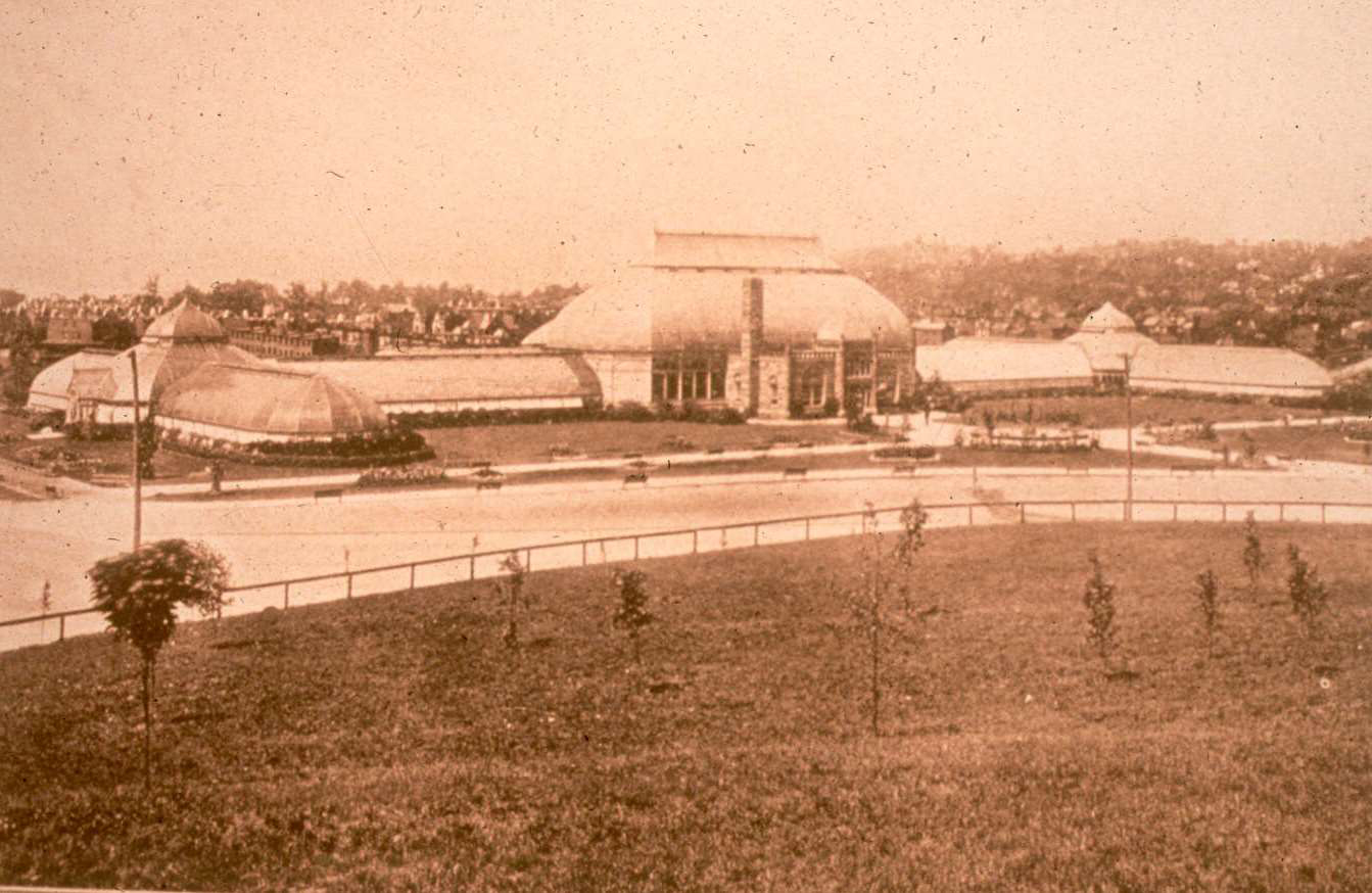 Early photo of the Phipps Conservatory and Botanical Gardens shortly after construction.